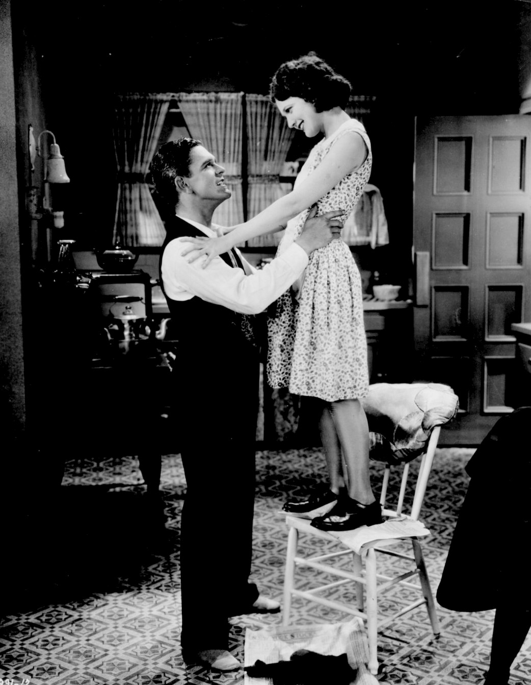 Photo of Glenn Tryon and Merna Kennedy from the 1929 film Skinner Steps Out.